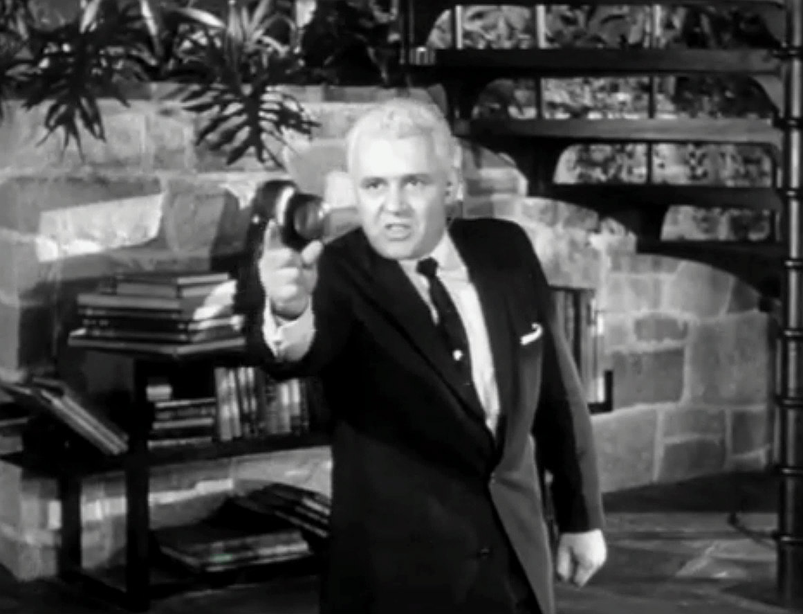 Rod Steiger in The Big Knife from the trailer for the film.